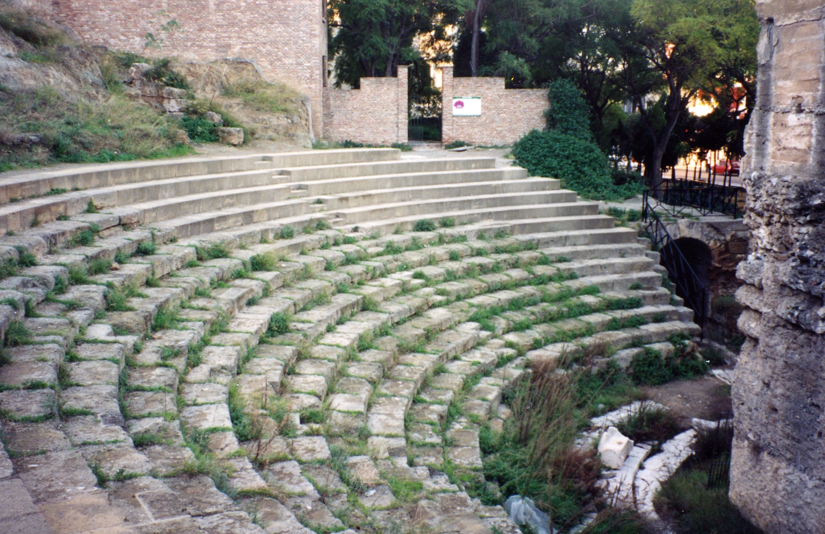 Malaga Roman Theatre